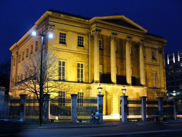 Apsley House "No. 1 London", the home of the Duke of Wellington, was built 1771-88 by Robert Adam for Baron Apsley. The Marquess of Wellesley bought it in 1805 and sold to his younger brother, the Duke, in 1817. Today it houses the Wellington Museum.